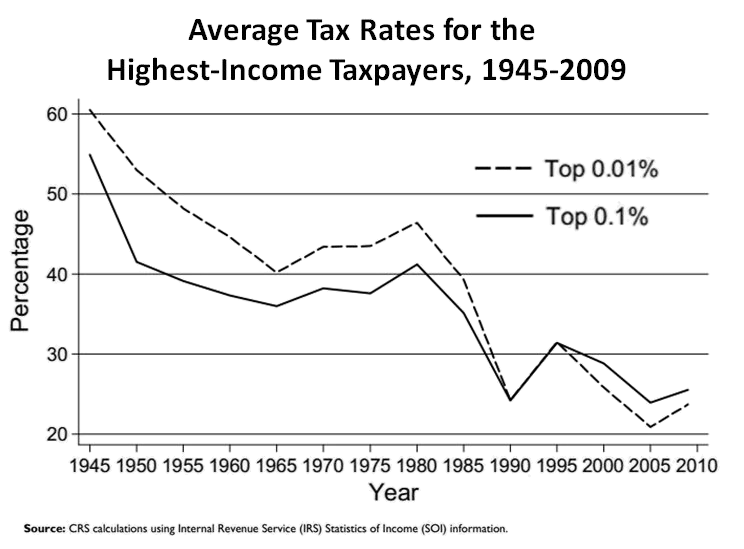 Average tax rate percentages for the highest-income U.S. taxpayers, 1945-2009. The average tax rate for the top 0.01% (one taxpayer in 10,000) was about 60% in 1945 and fell to 24.2% by 1990. The average tax rate for the top 0.1% (one taxpayer in 1,000) was 55% in 1945 and also fell to 24.2% by 1990, following a similar downward path as the tax rate for the top 0.01%. Between 1990 and 1995, the average tax rate for both the top 0.1% and top 0.01% increased to about 31%. After 1995, the average tax rate for the top 0.01% was lower than that for the top 0.1%.